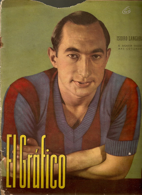 Isidro Lángara in the cover of El Gráfico magazine of Argentina.